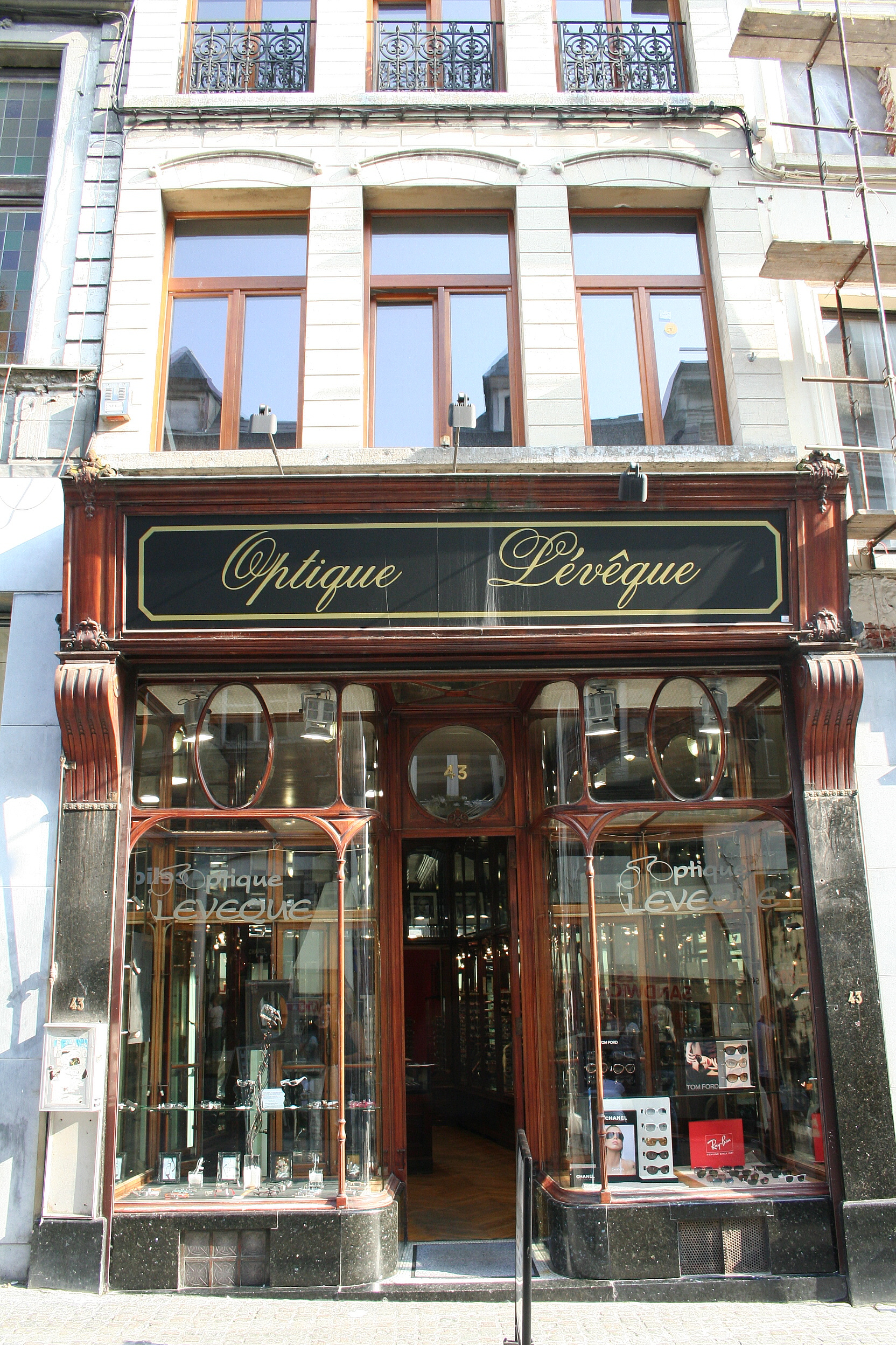 Mons (Belgium), Rue de la Chaussée 43. – Formely typical old optician shop .